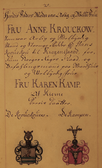 Family coats of arms of Kruckow and Kamp